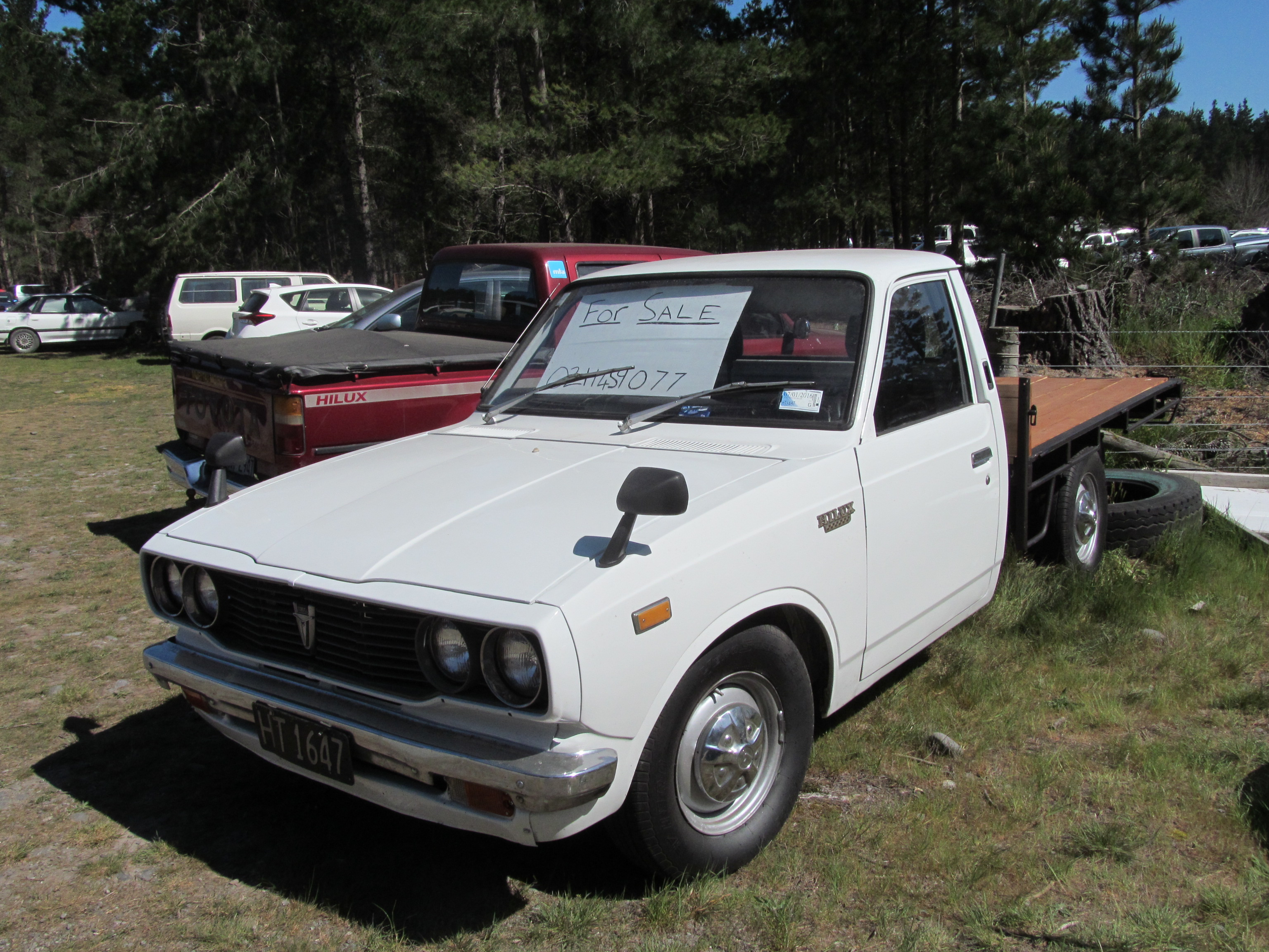 1976 Toyota Hilux utility, photographed in New Zealand.